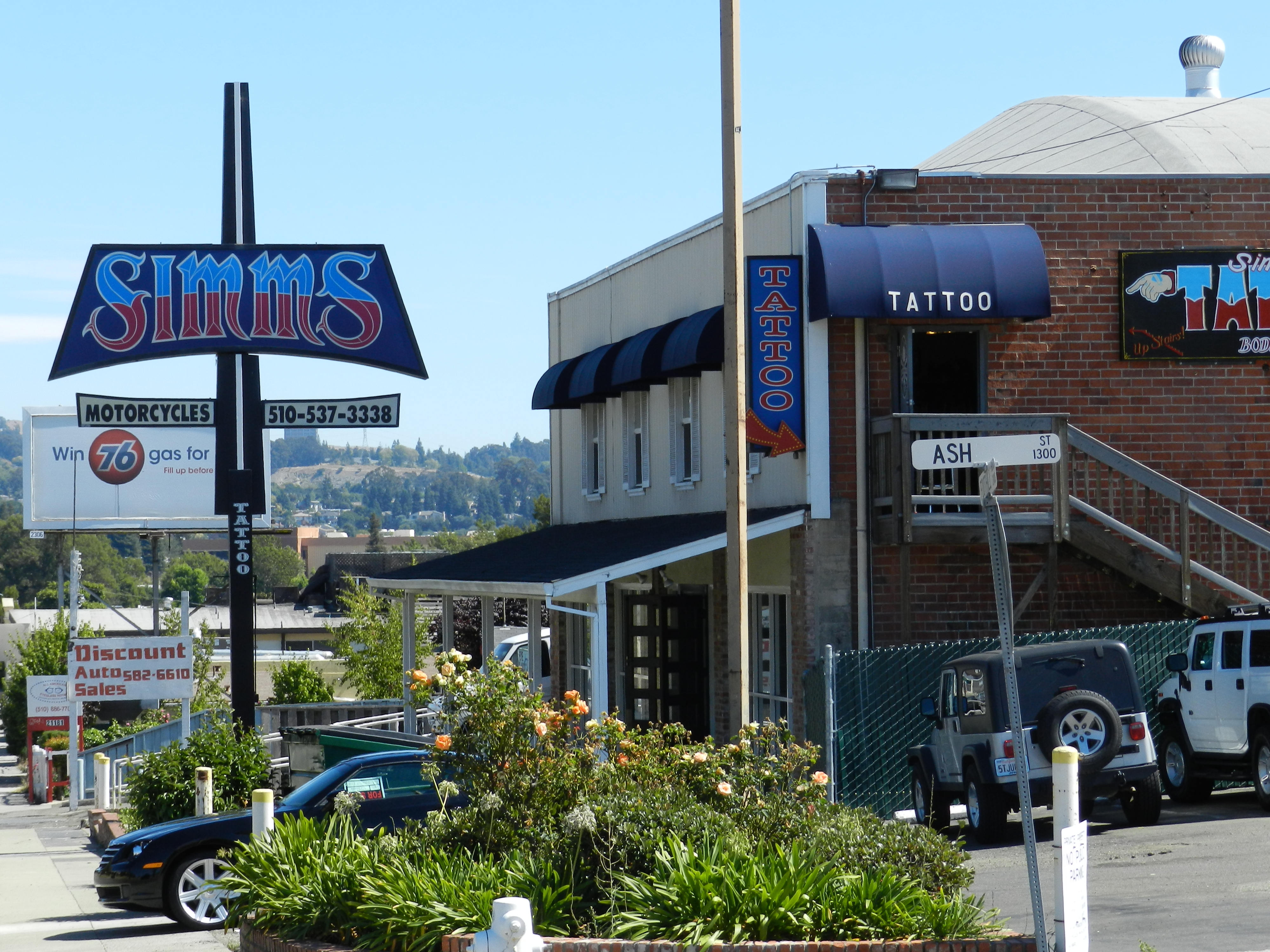 Simms Custom Cycles sign, with view of downtown Hayward, California. Business owned by Ron Simms. base of now demolished Warren Hall visible just below the Simms phone number.